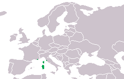 Distribution of Discoglossus sardus, based on Nöllert/Nöllert: "Die Amphibien Europas"